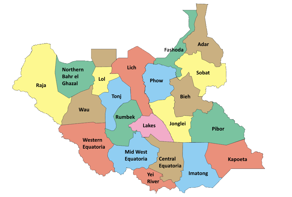 21 States of South Sudan declared by opposition leader Riek Machar, not recognised by the South Sudanese government, and drawn after Ref No. OCC/FSG/PK/01/001, Date: 21/12/2014, Subject: Dissolution of the Ten States in South Sudan